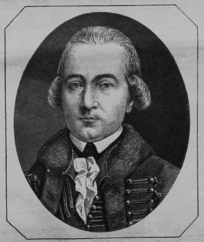 Portrait of János Laczkovics